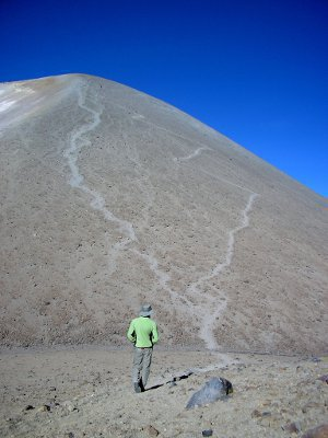 Chachani mountain near Arequipa in Peru, Nov. 2010